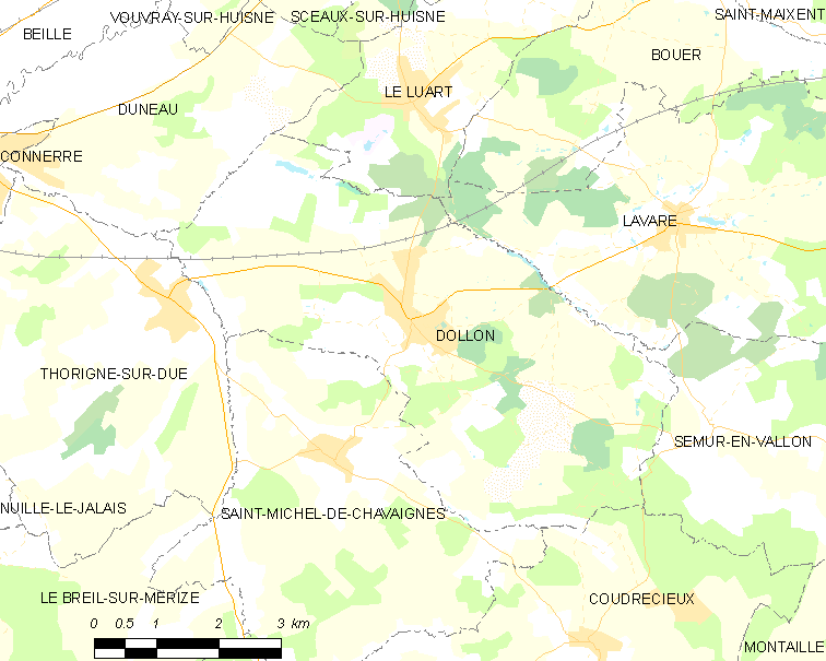 Map of French municipality